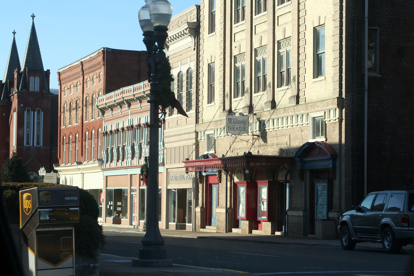 Downtown Clifton Forge, Virginia, USA. Masonic Theatre shown in center.